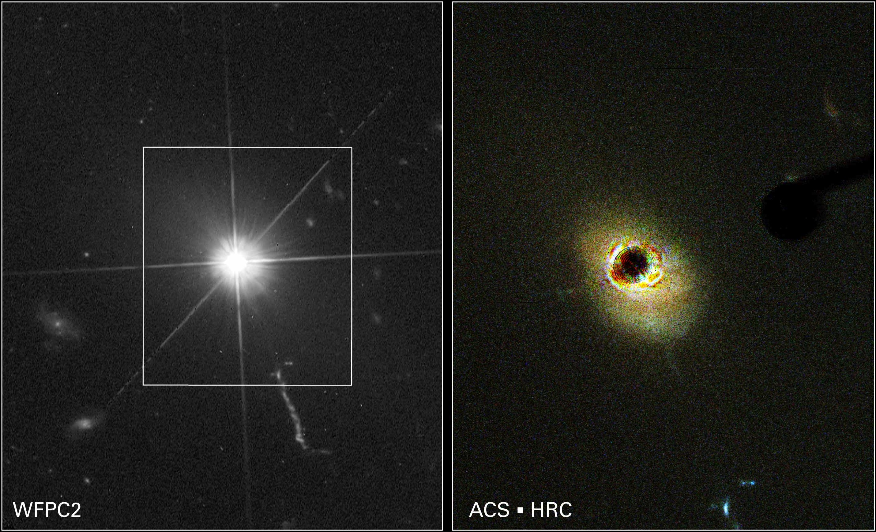 Hubble Probes the Heart of a Nearby Quasar.